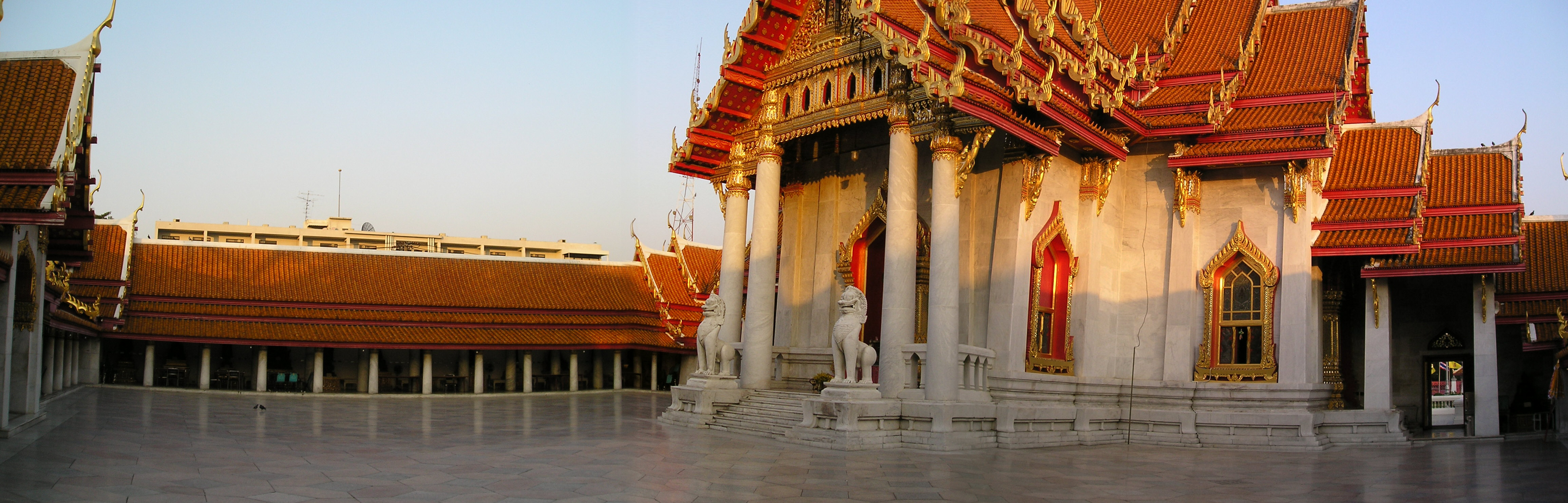 Panoramic view of the Buddhist Marble Temple - Wat Benchamabophit Dusitvanaram - in Bangkok, Thailand.